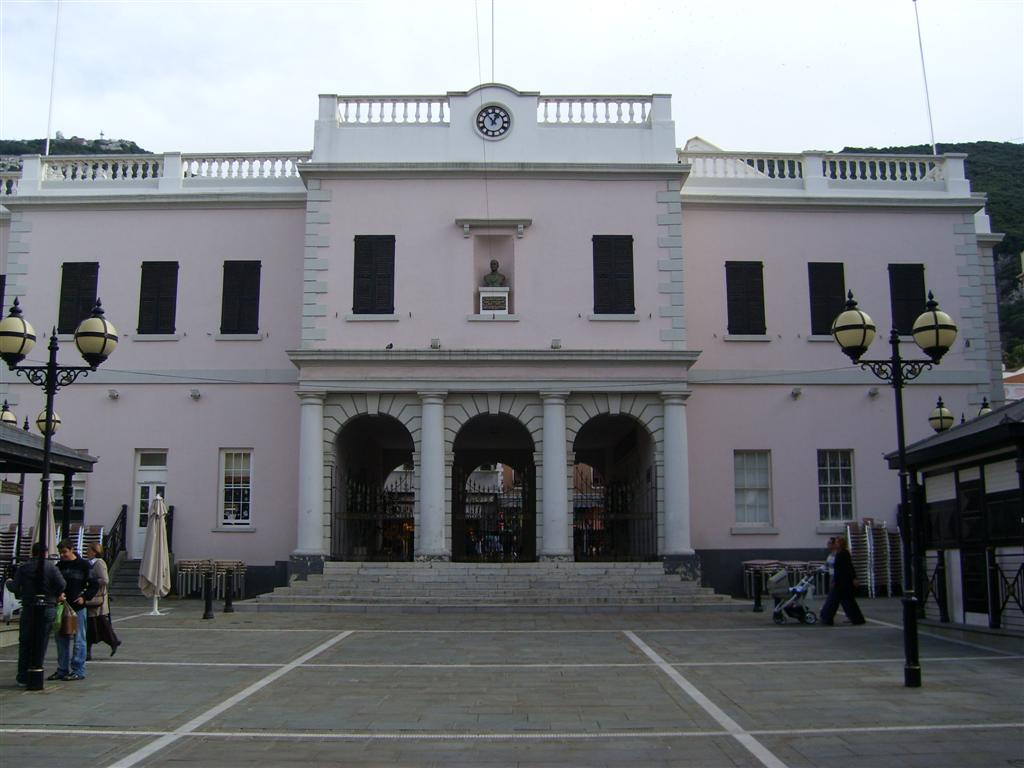 Gibraltar Parliament (formerly House of Assembly)